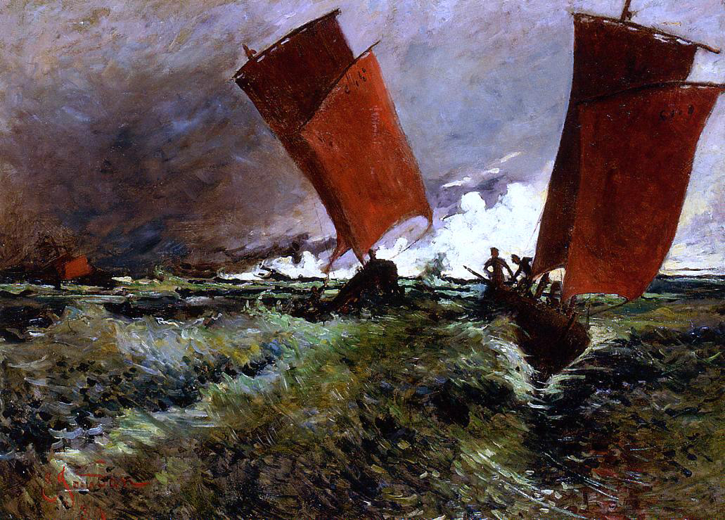 Red sails